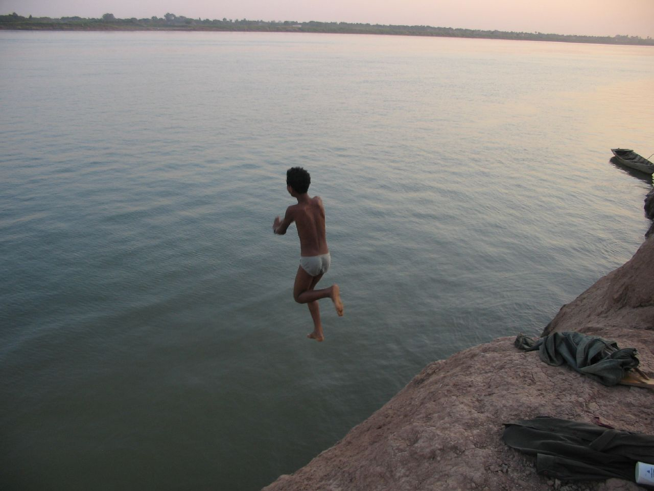 Swimming in the Mekong in Cambodia.